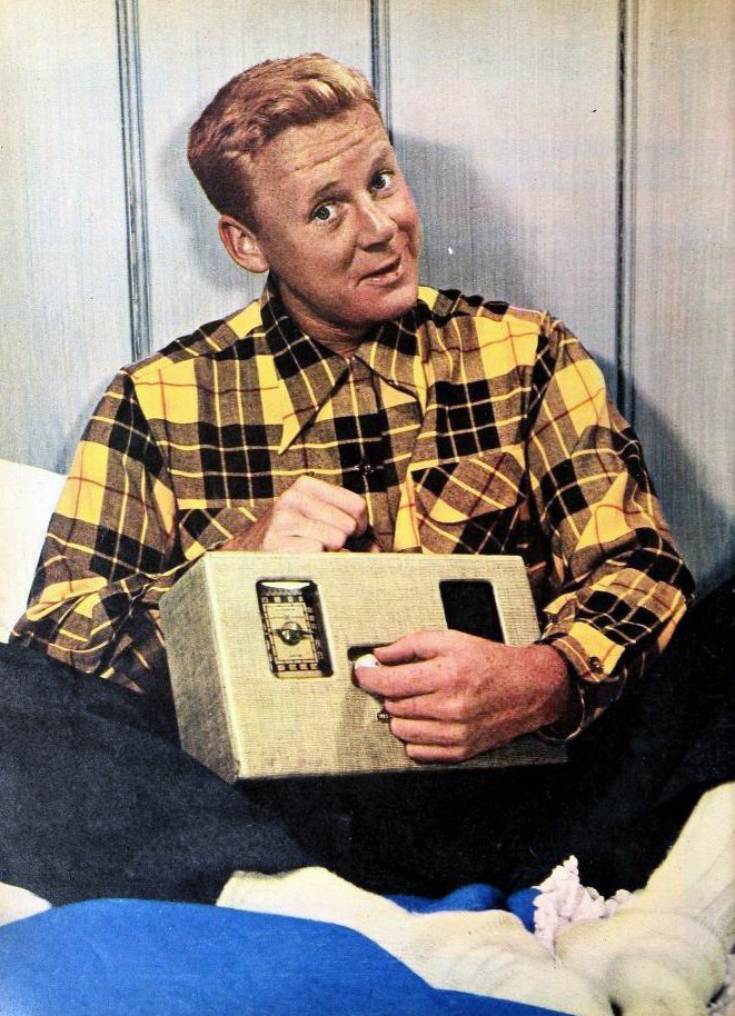 Van Johnson, 1946